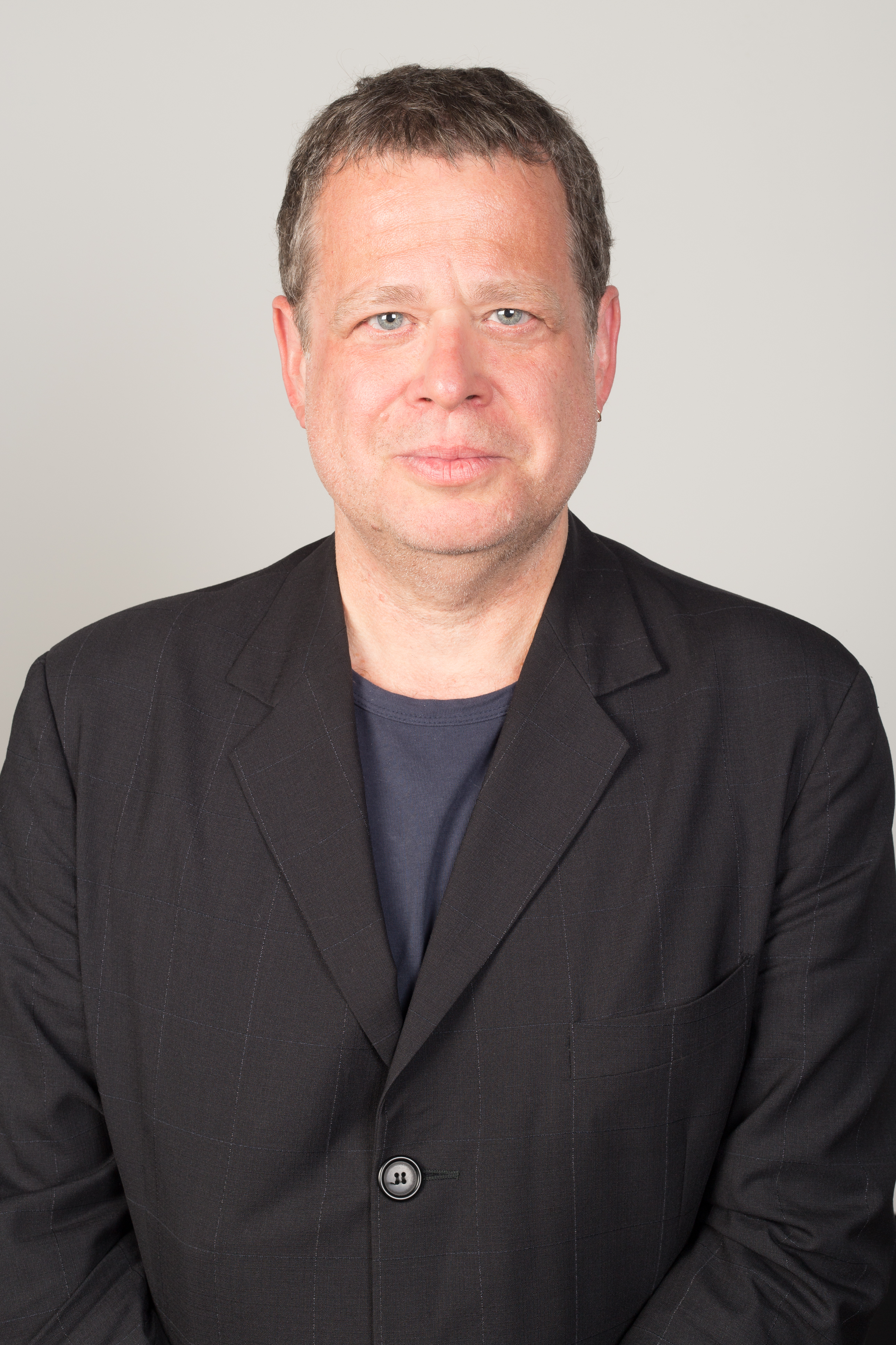 David Ruehm, Austrian director and photographer